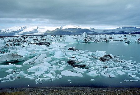 Jökulsárlón, southern Iceland. From .